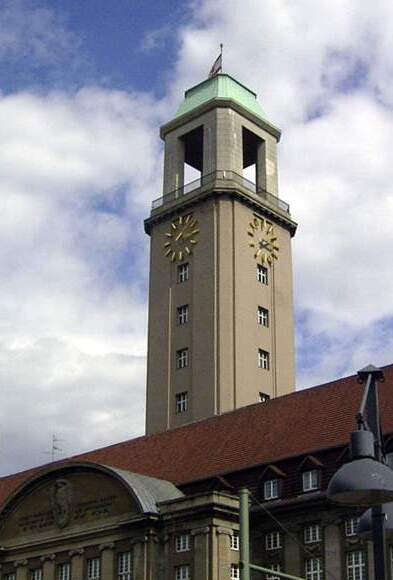 Townhall of Berlin's district Spandau